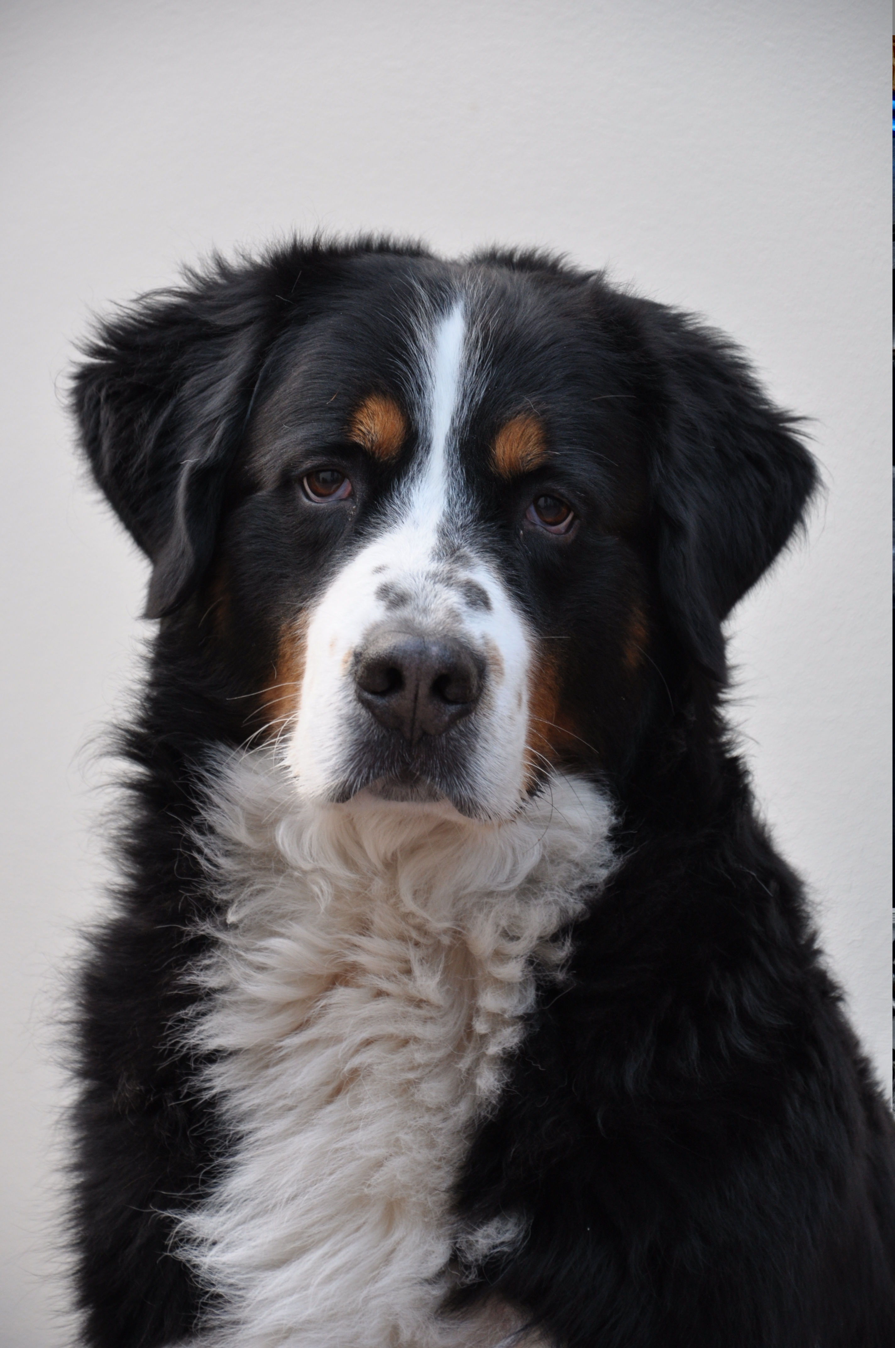 Berner Senne Dog ( age 9 years)